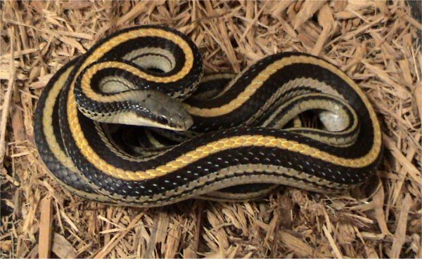 Texas patchnose snake, Salvadora grahamiae lineata. Animal courtesy of Austin Reptile Service.